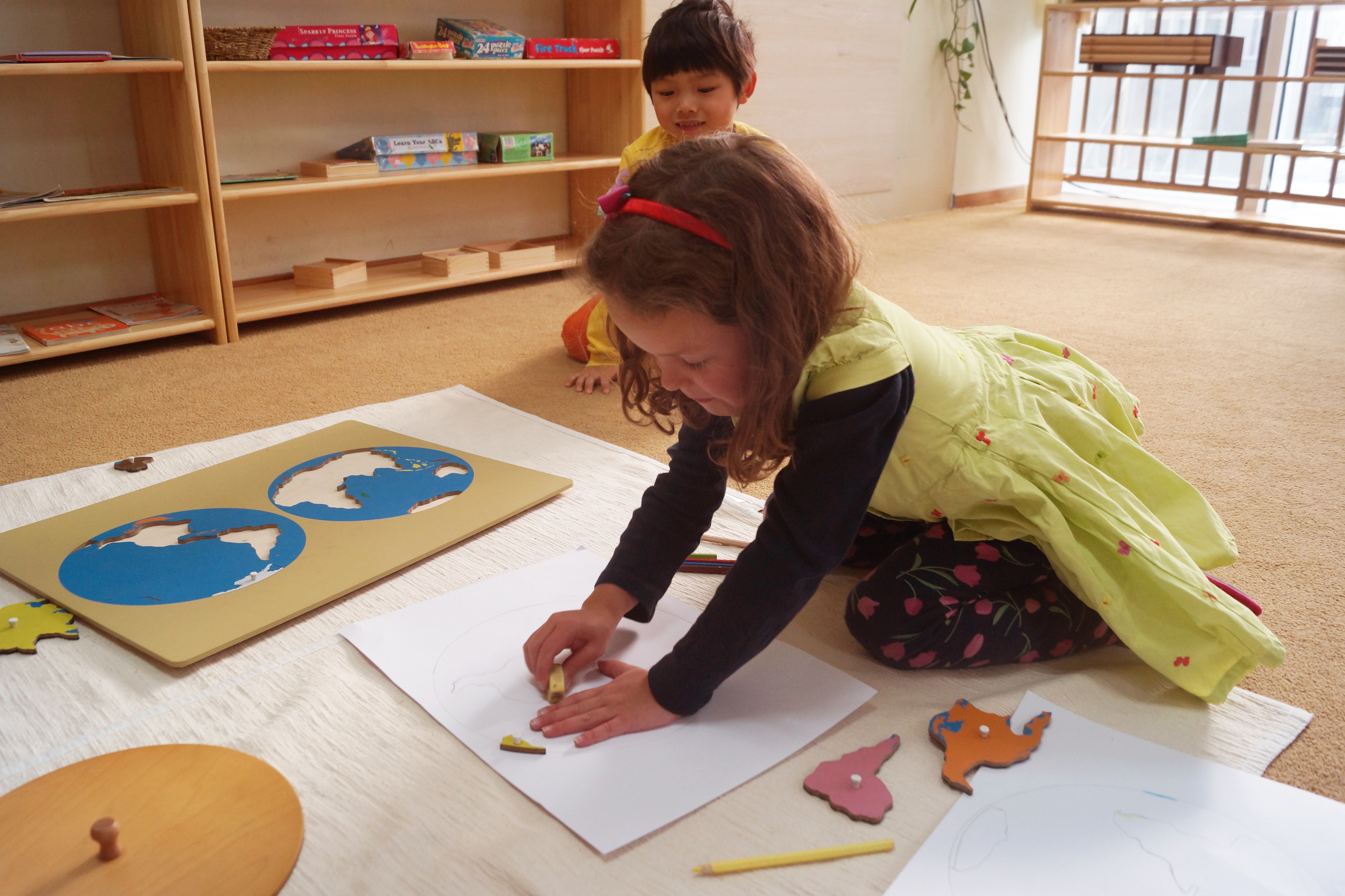 Montessori Early Childhood Student at Qingdao Amerasia International School studies Geography